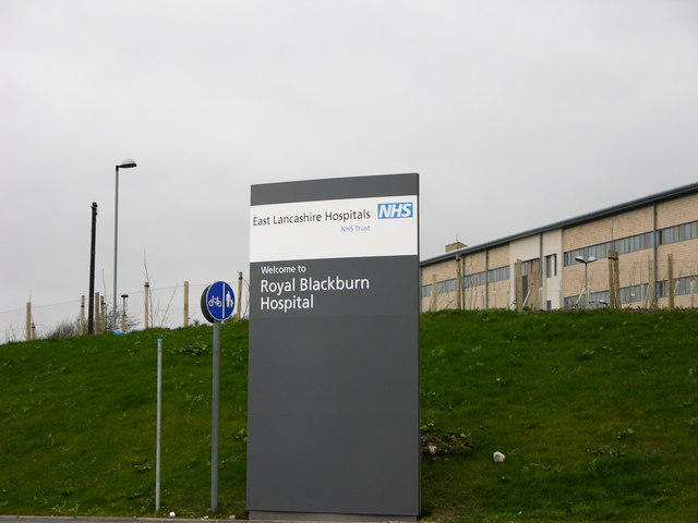 Entrance to new Royal Blackburn Hospital Formerly Queen's Park Hospital.The old Blackburn Royal Hospital moved into this PFI build last year.